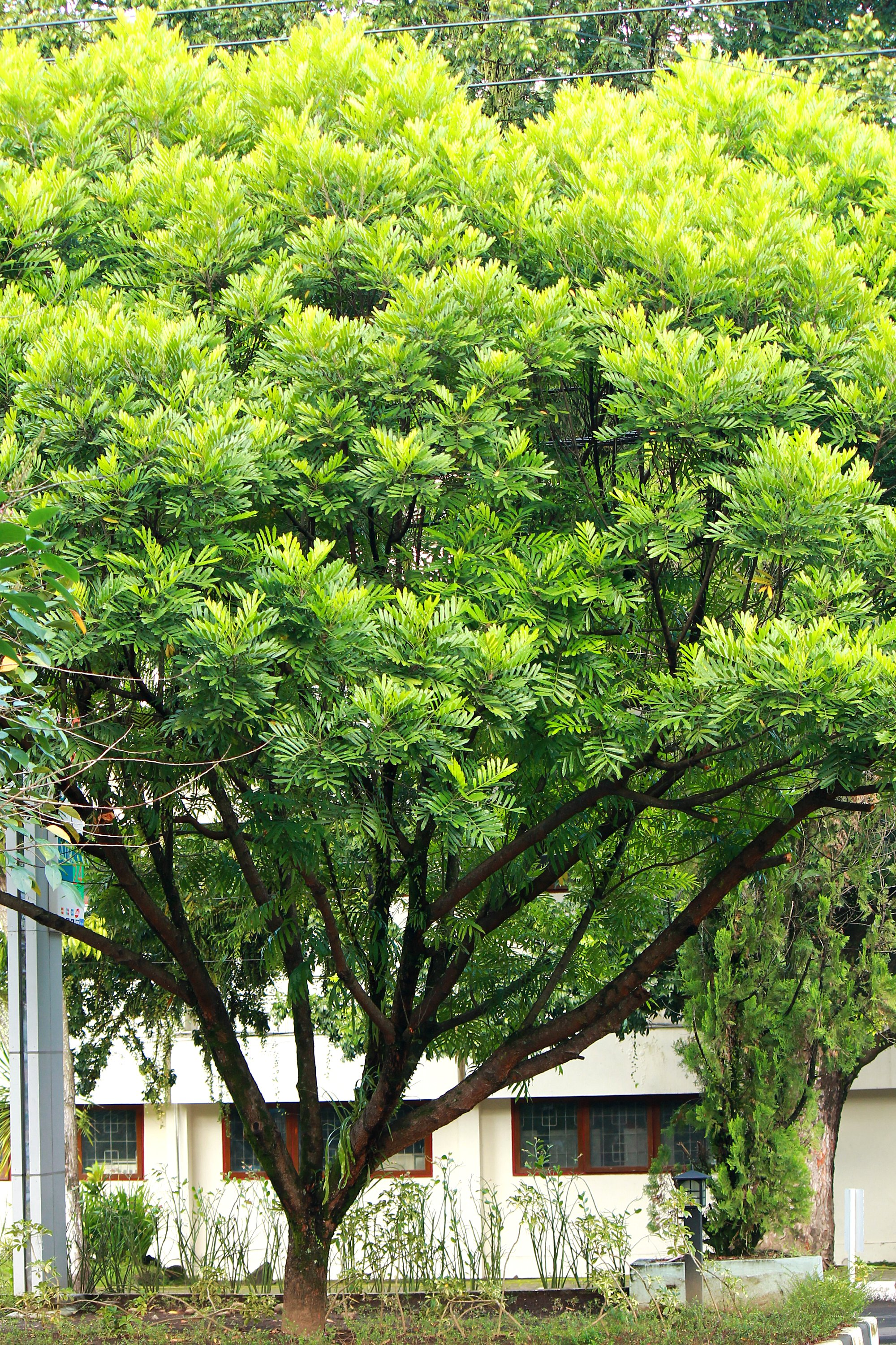 Fern Tree (Filicium decipiens) at Manado, North Sulawesi. 24 December 2013.